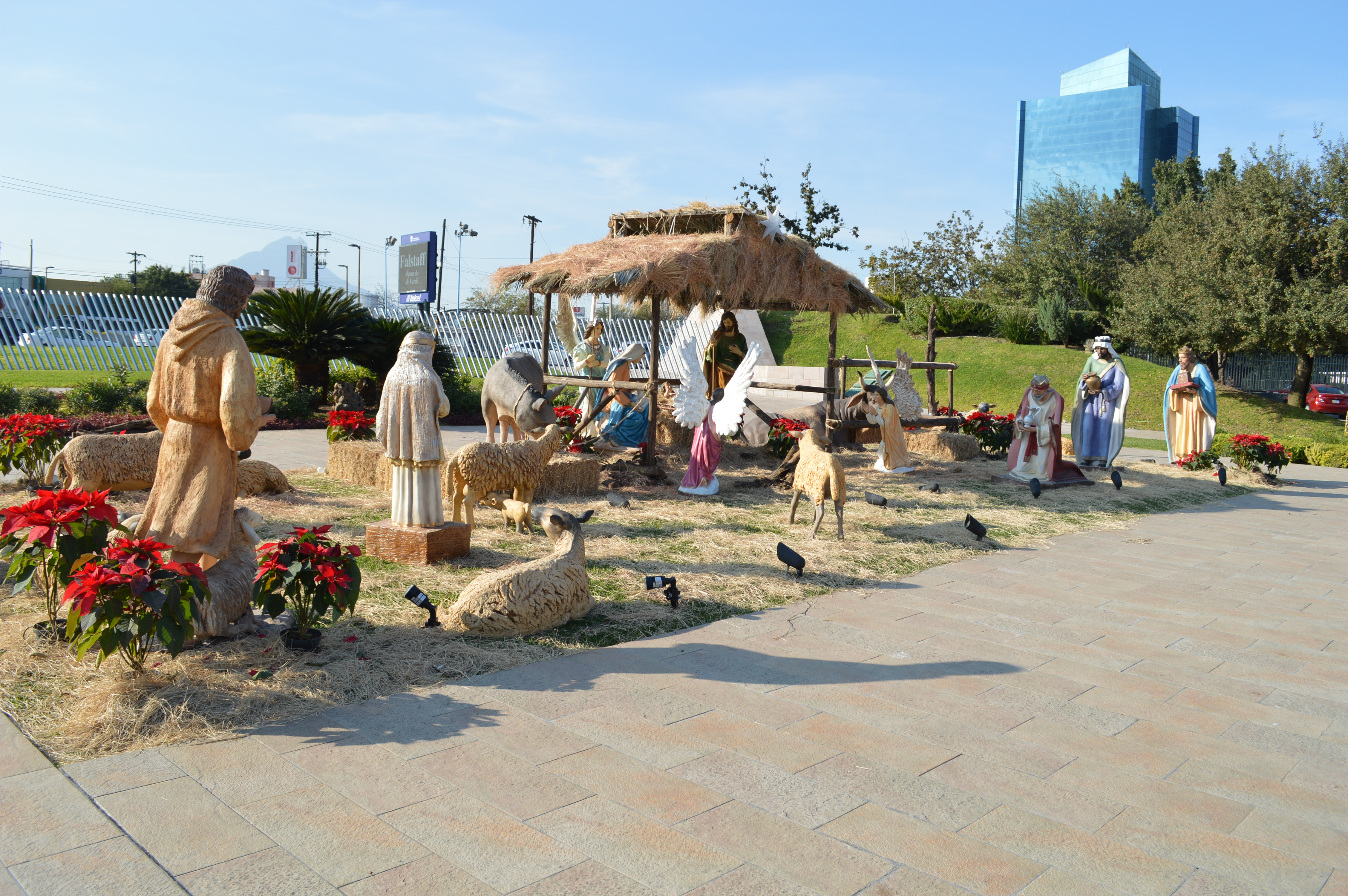 Nativity scene at the Tec de Monterrey Campus Monterrey